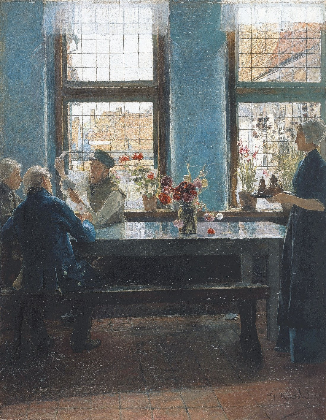 men playing cards (Skat) in a Lübeck interior